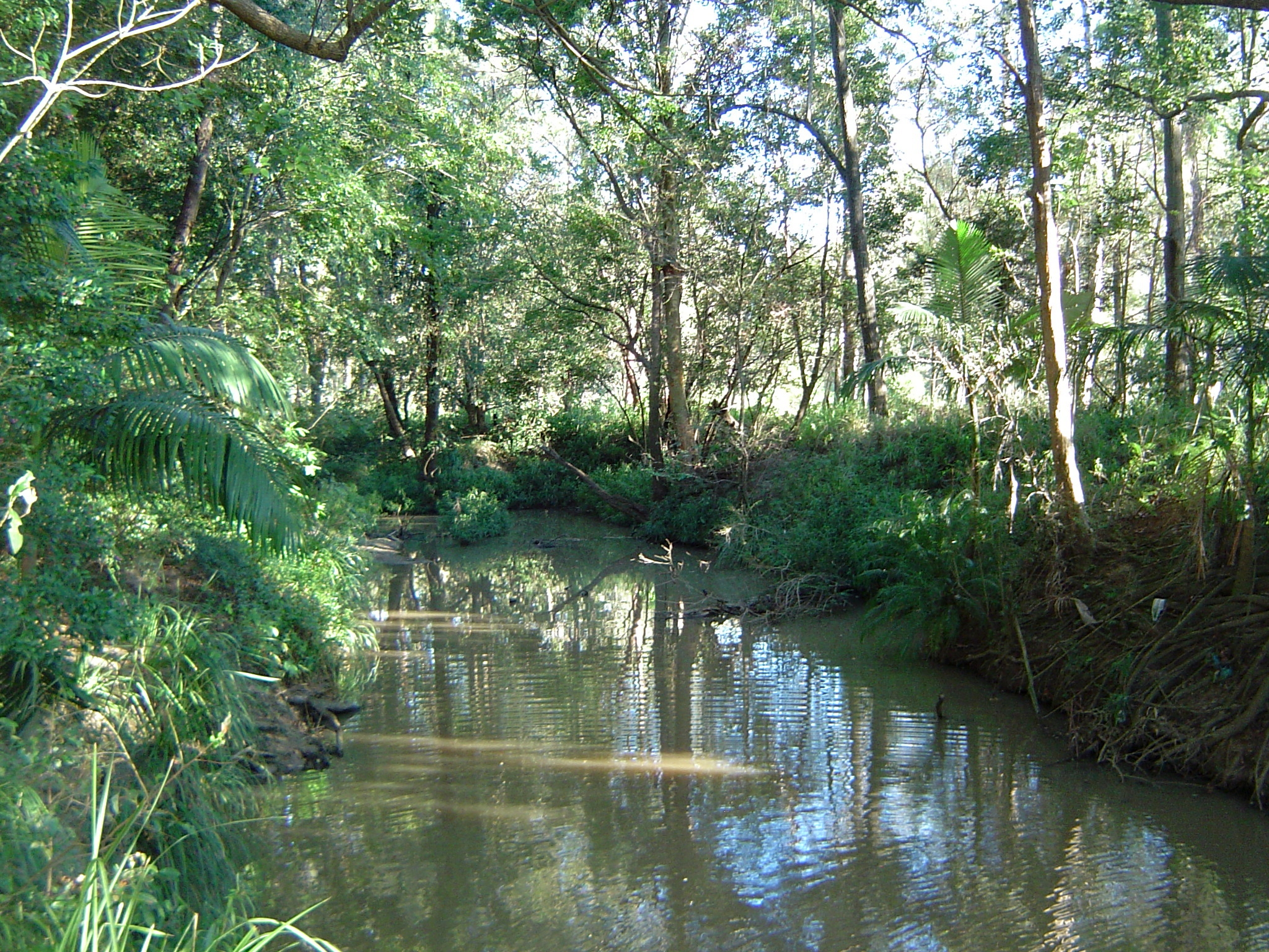 Photo of Bulimba Creek at Mansfield, Brisbane, Queensland, Australia.